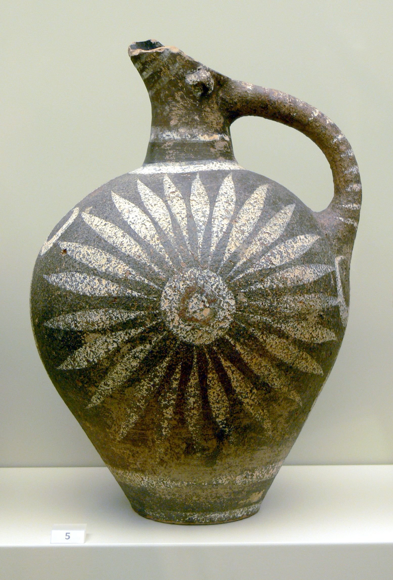 Archaeological Museum of Herakleion. Kamares-style pottery. Old palatial period ( 2100-1700 B.C. )